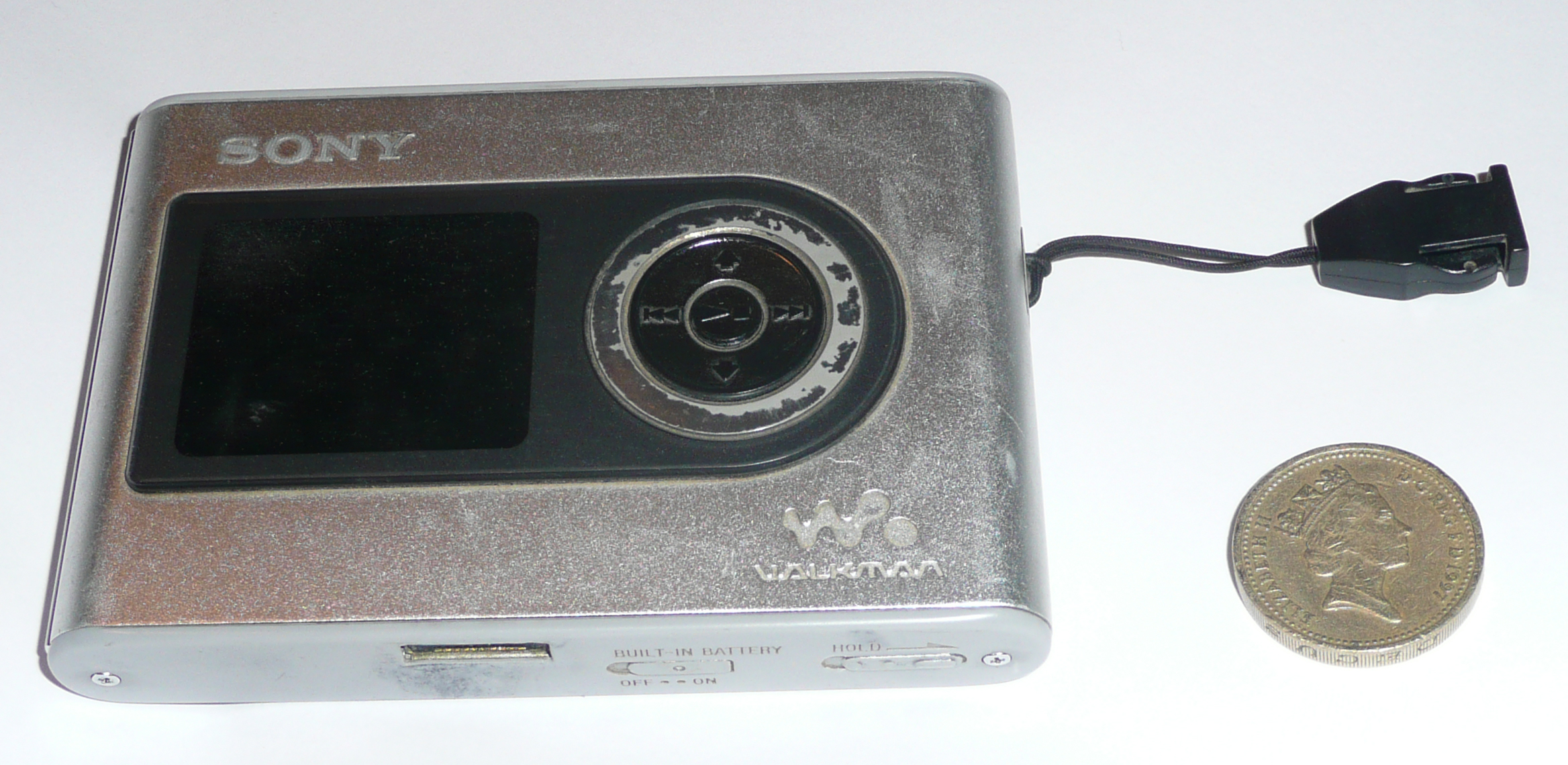 A rather worn Sony ATRAC HDD Walkman NW-HD3.